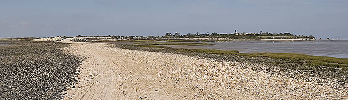 Passe aux boeufs (tidal road) - Île Madame (island accessible par car at low tide) - Charente-Maritime - France Photo issue de ma banque d'images : Pep.per 14 octobre 2006 à 10:46 (CEST)